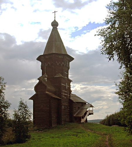 Dormition Church in Kondopoga.